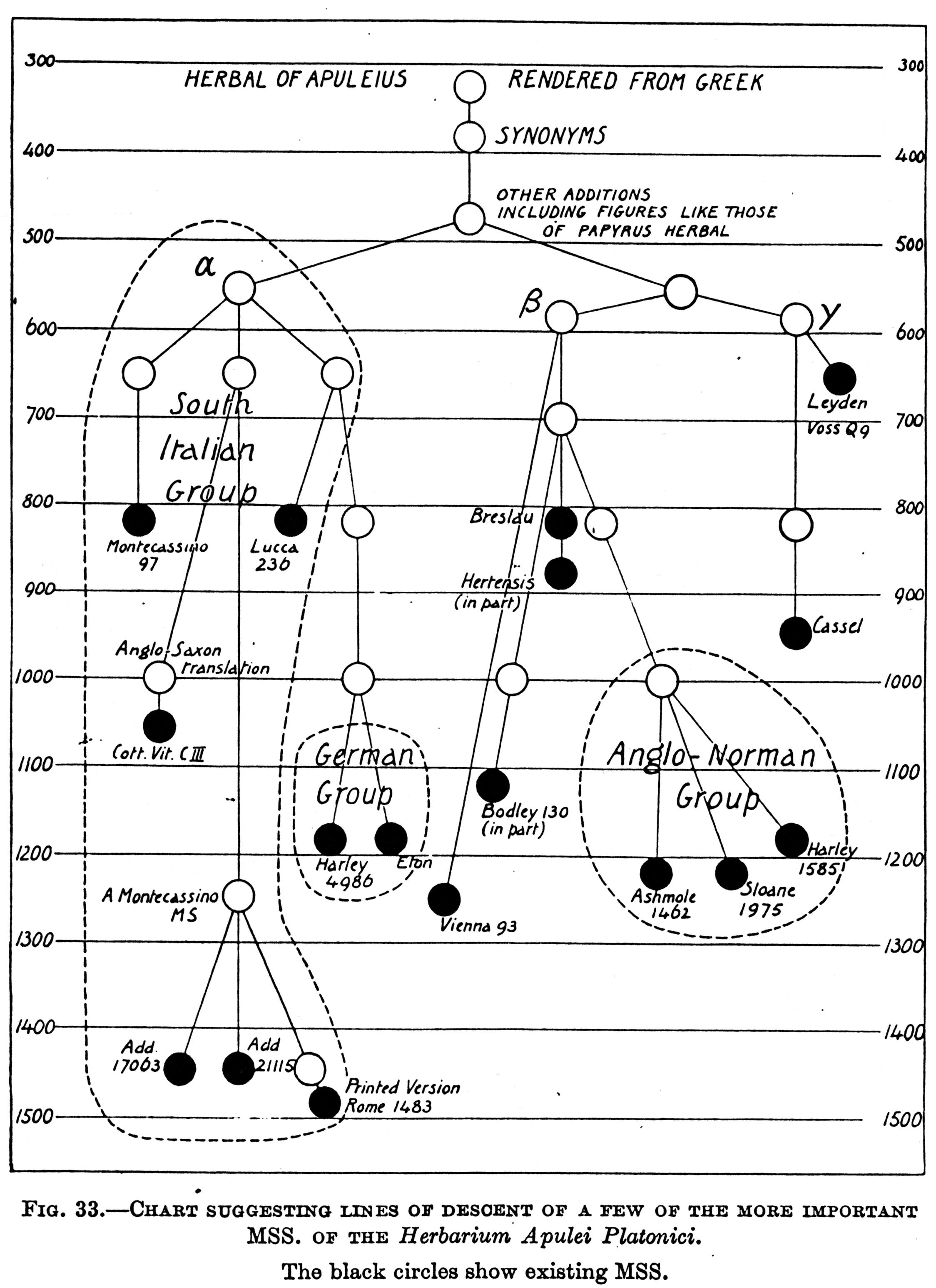 Schedule of classification of manuscripts